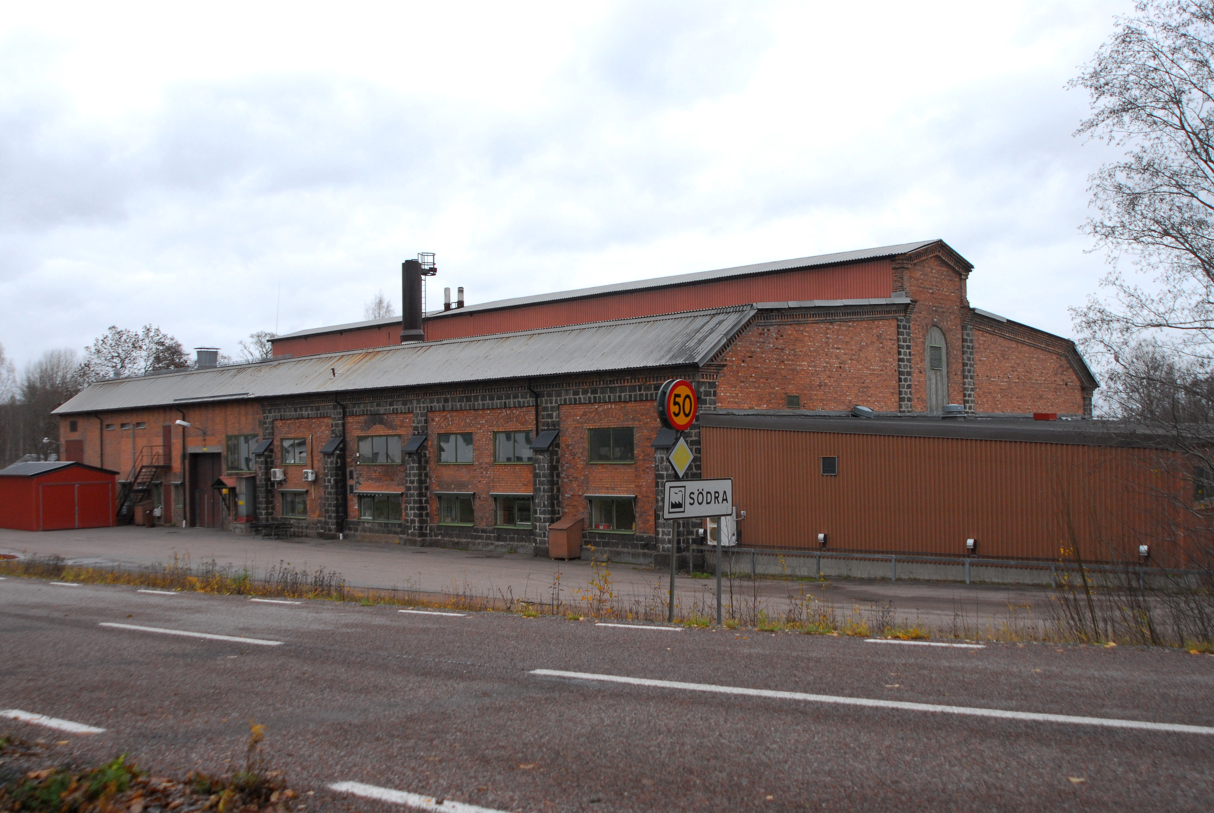 Wikmanshyttan steelworks. The former steel mill. It ceased operation in 1968. Nowdays the building has a new function as plastic factory. Hedemora municipality, Sweden